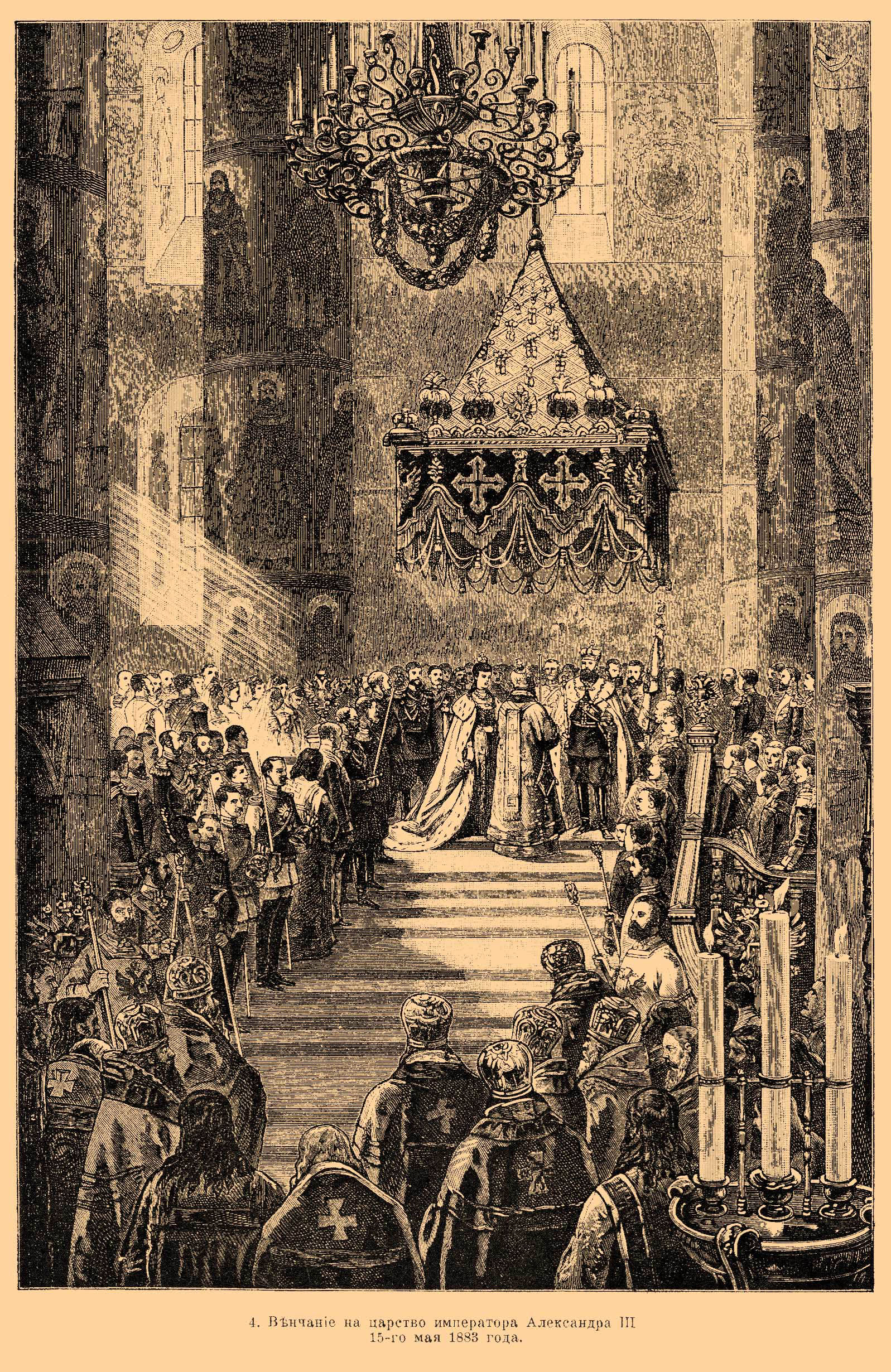 Illustration from Brockhaus and Efron Encyclopedic Dictionary (1890—1907)